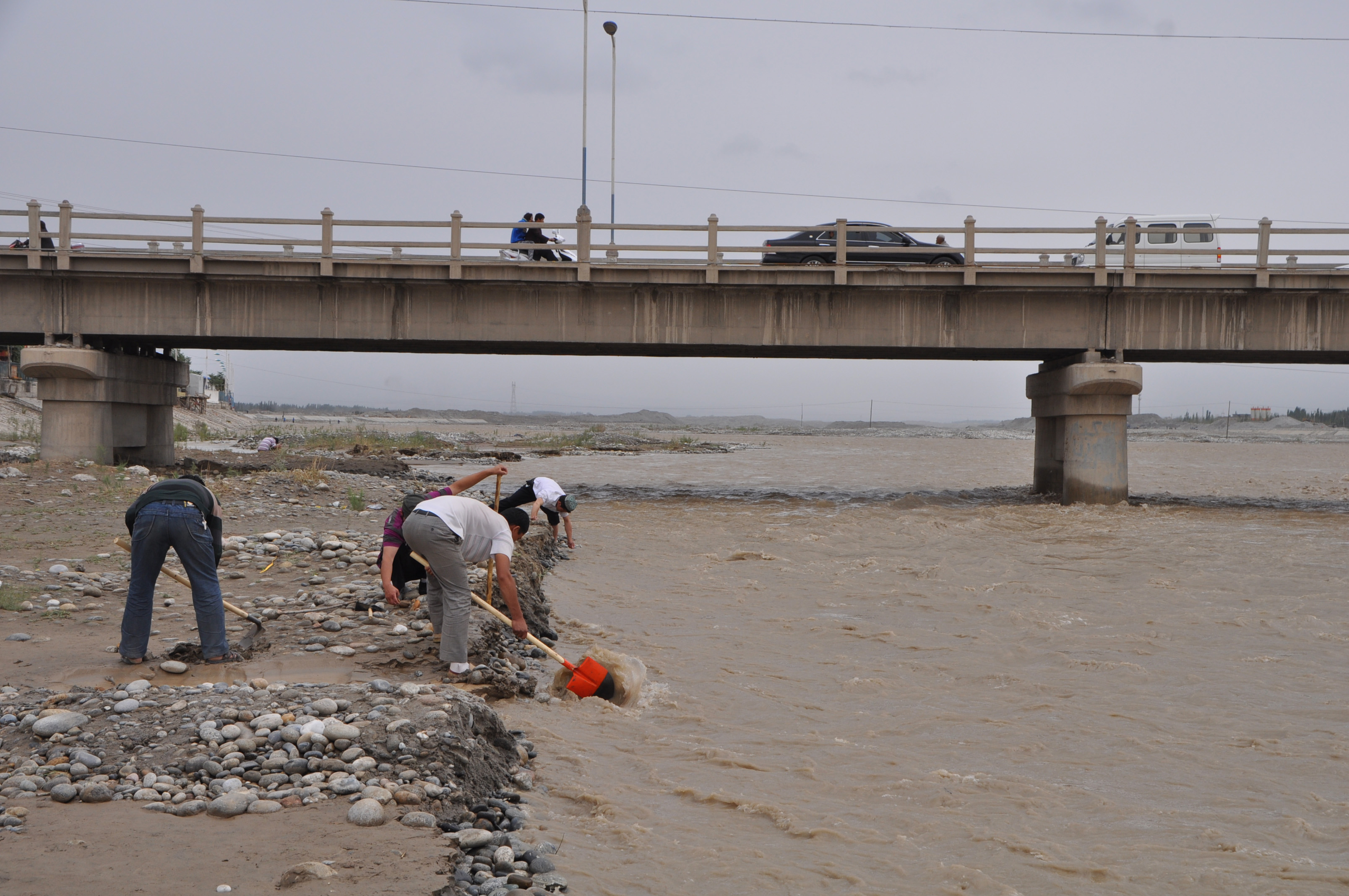 G315 Highway, Hotan Prefecture, Xinjiang, China-Digging for jade on the Hotan River